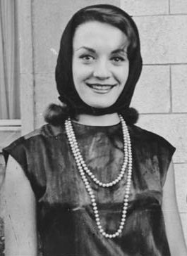 Daniela Rocca- actriz italiana